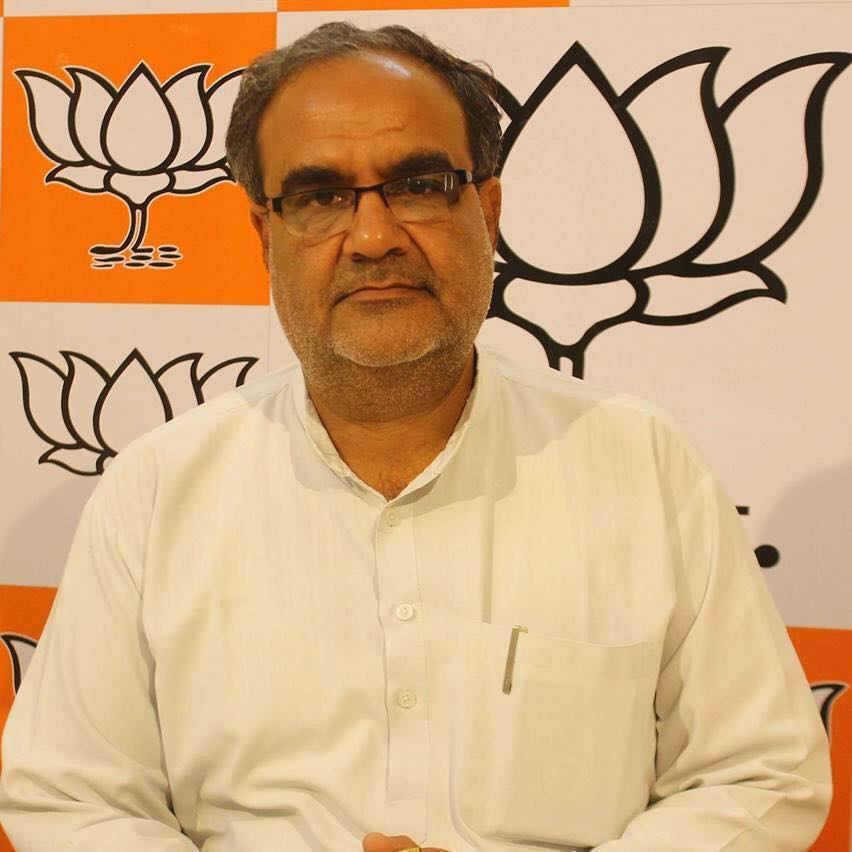 this is an image of Bhupendra Singh (Uttar Pradesh)